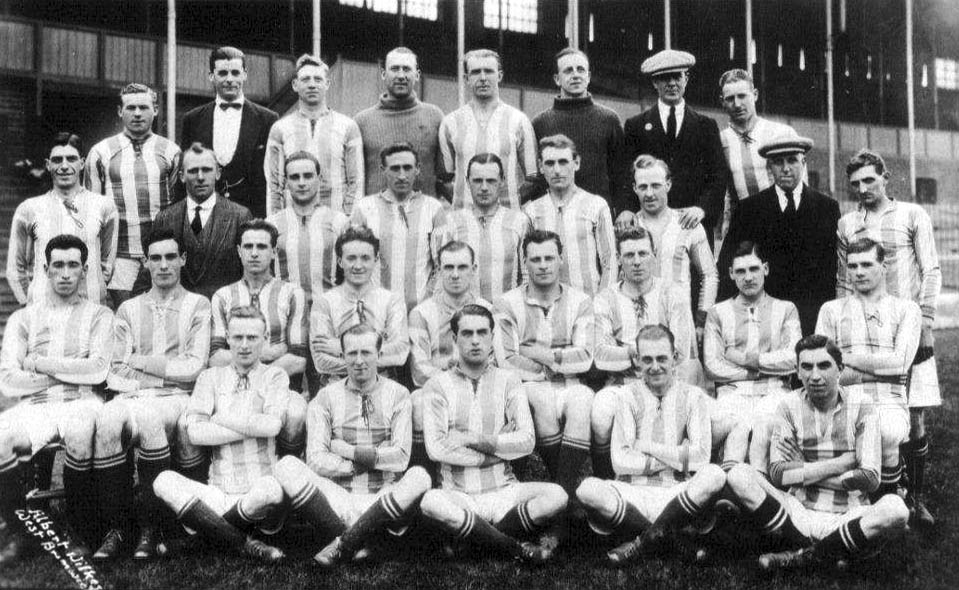 William James Christmas Lammus in team photo seated in the second row from the front far left